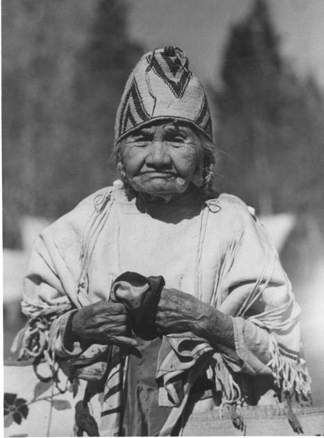 Original photo ca. 1900-1909 Bertram Pahofta, Lucy, 1840-1940 Lucy Pahofta Bertram was the daughter of Indian John, a Kittitas Indian who lived in the foothills between Thorp and Cle Elum on the south side of the Yakima River. She lived in the Thorp area with her husband Antoine Bertram. She is seen in this picture wearing traditional attire complete with intricate beadwork on her hat.